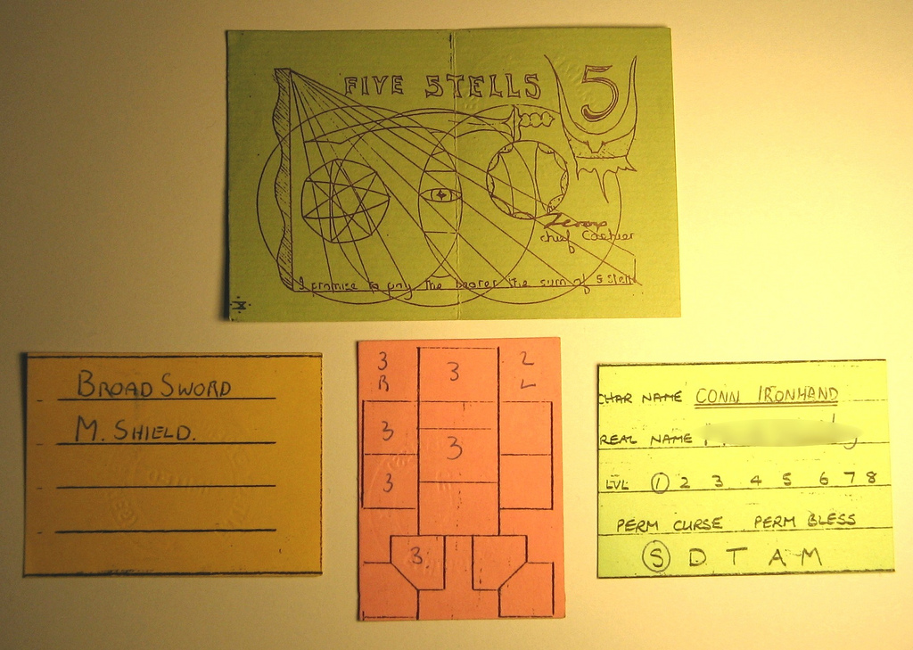 Cards used in the Treasure Trap live-action roleplaying game. Original URL: picture by "scrumpyboy"